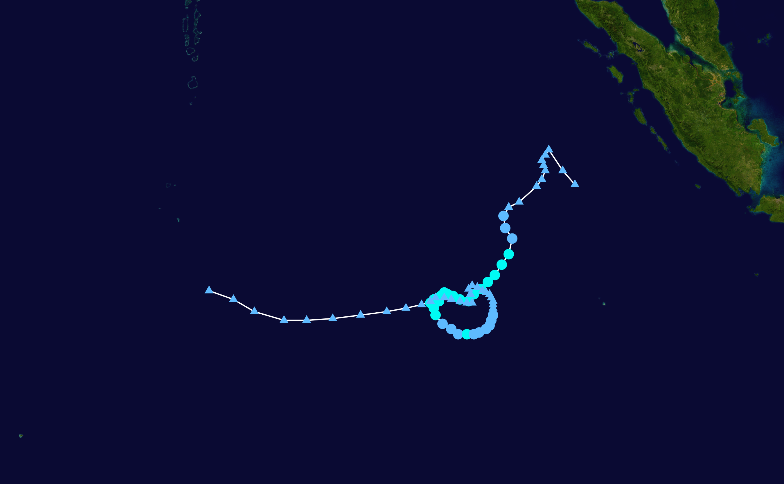 Track map of Severe Tropical Storm Lee-Ariel of the 2007-08 Australian region cyclone season and the 2007-08 South West Indian Ocean cyclone season. The points show the location of the storm at 6-hour intervals. The colour represents the storm's maximum sustained wind speeds as classified in the Saffir–Simpson scale (see below), and the shape of the data points represent the nature of the storm, according to the legend below. Saffir–Simpson scale Tropical depression≤38 mph≤62 km/h Category 3111–129 mph178–208 km/h Tropical storm39–73 mph63–118 km/h Category 4130–156 mph209–251 km/h Category 174–95 mph119–153 km/h Category 5≥157 mph≥252 km/h Category 296–110 mph154–177 km/h Unknown Storm type Tropical cyclone Subtropical cyclone Extratropical cyclone / Remnant low / Tropical disturbance / Monsoon depression